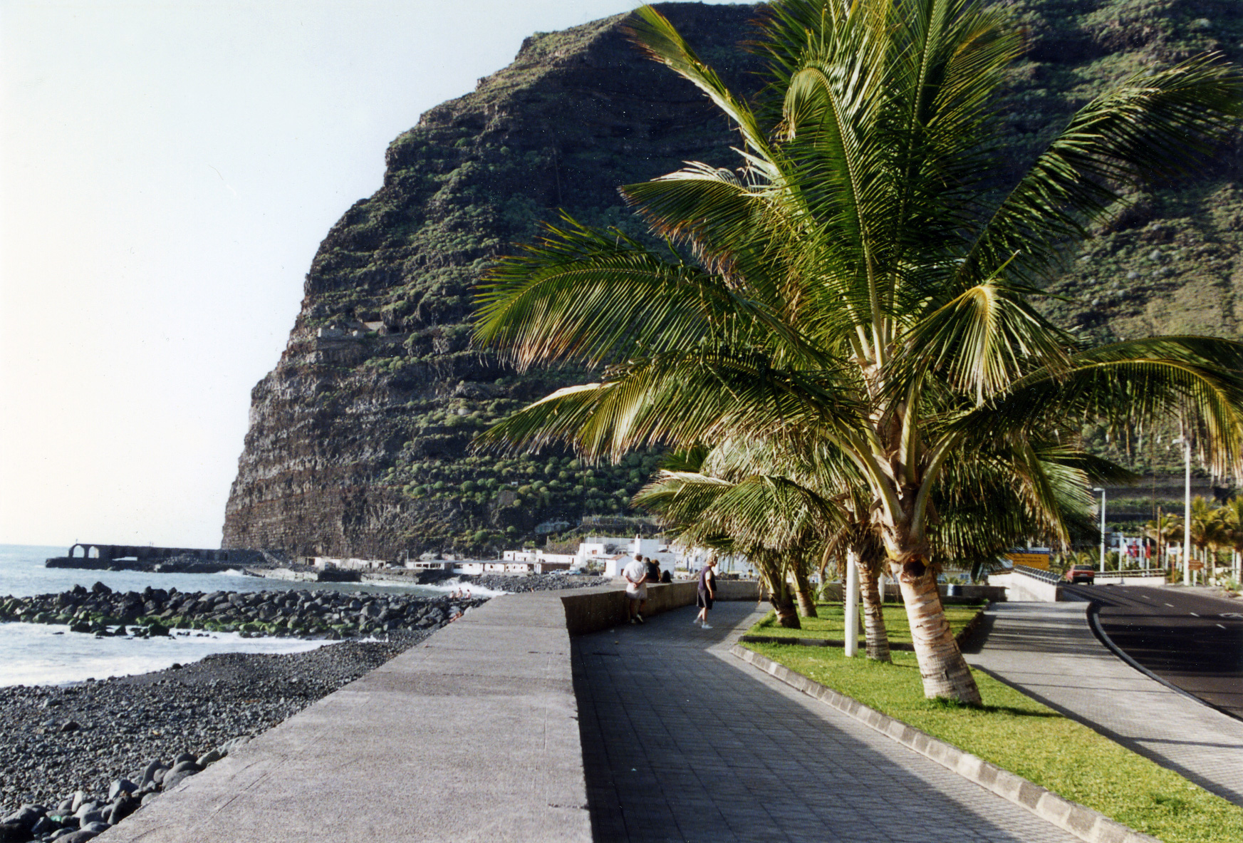 Cocos nucifera near Puerto de Tazacorte on Isle of La Palma, Canary Islands